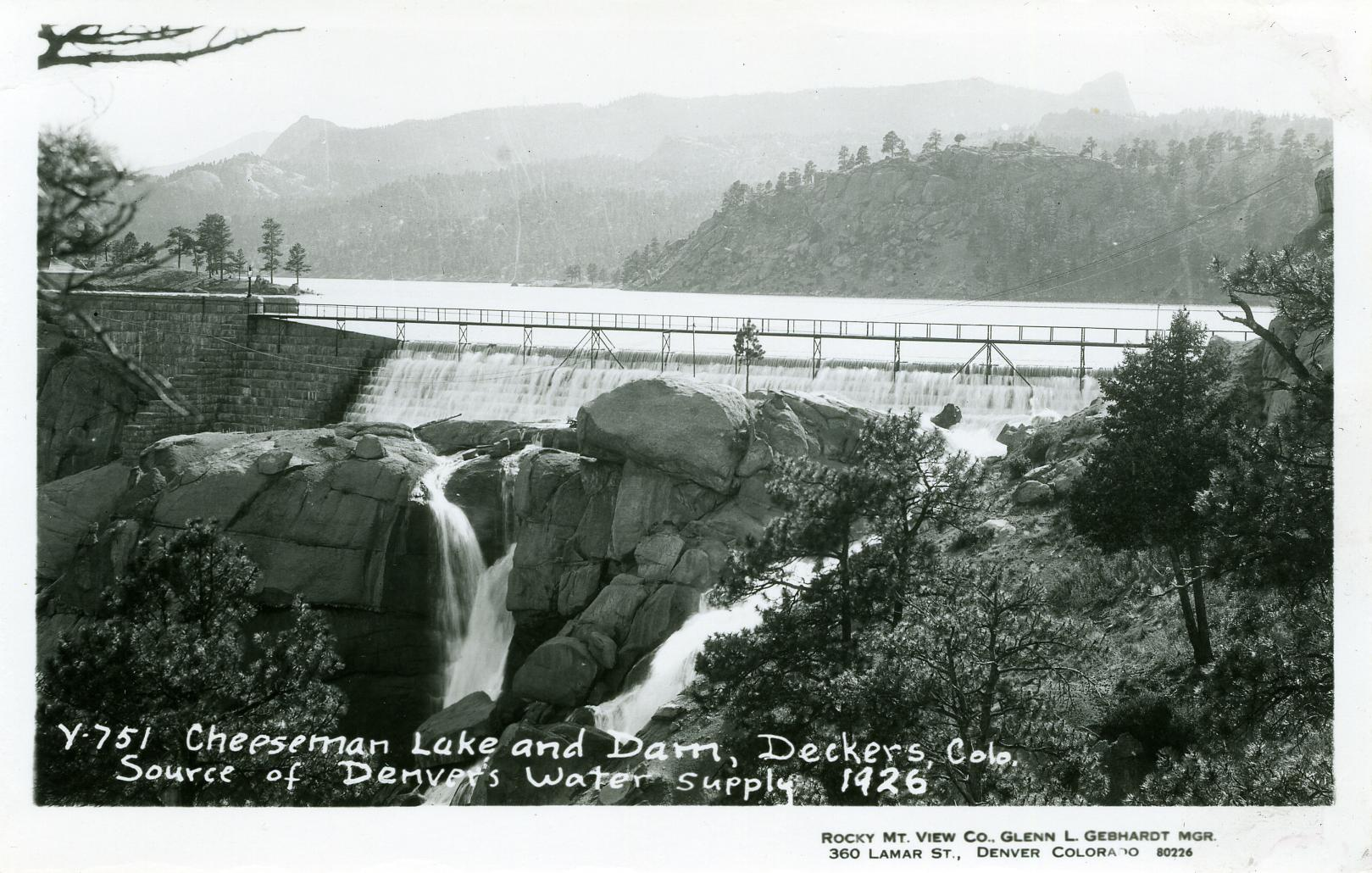 Place: South Platte River, southwest of Deckers, Colorado Description/Caption: V-751 Cheeseman Lake and Dam, Deckers, Colo. Source of Denver's Water Supply 1926 Medium: Real Photo Postcard (RPPC) Cite as: CO-A-0046